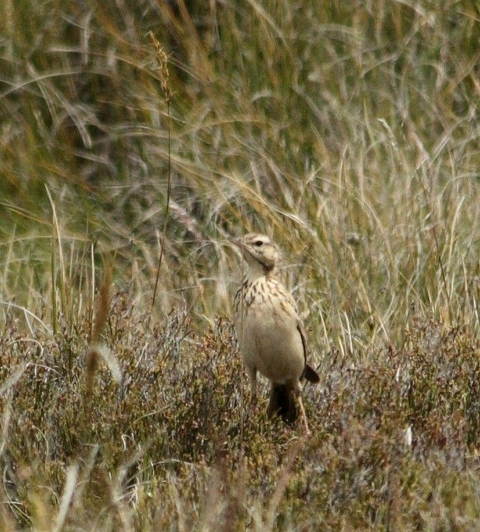 Mountain Pipit (Anthus hoeschi). Location: Top of Sani Pass, border of South Africa and Lesotho.